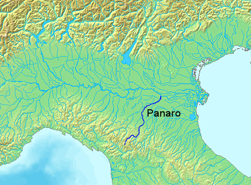 Location of Panaro river - Italy